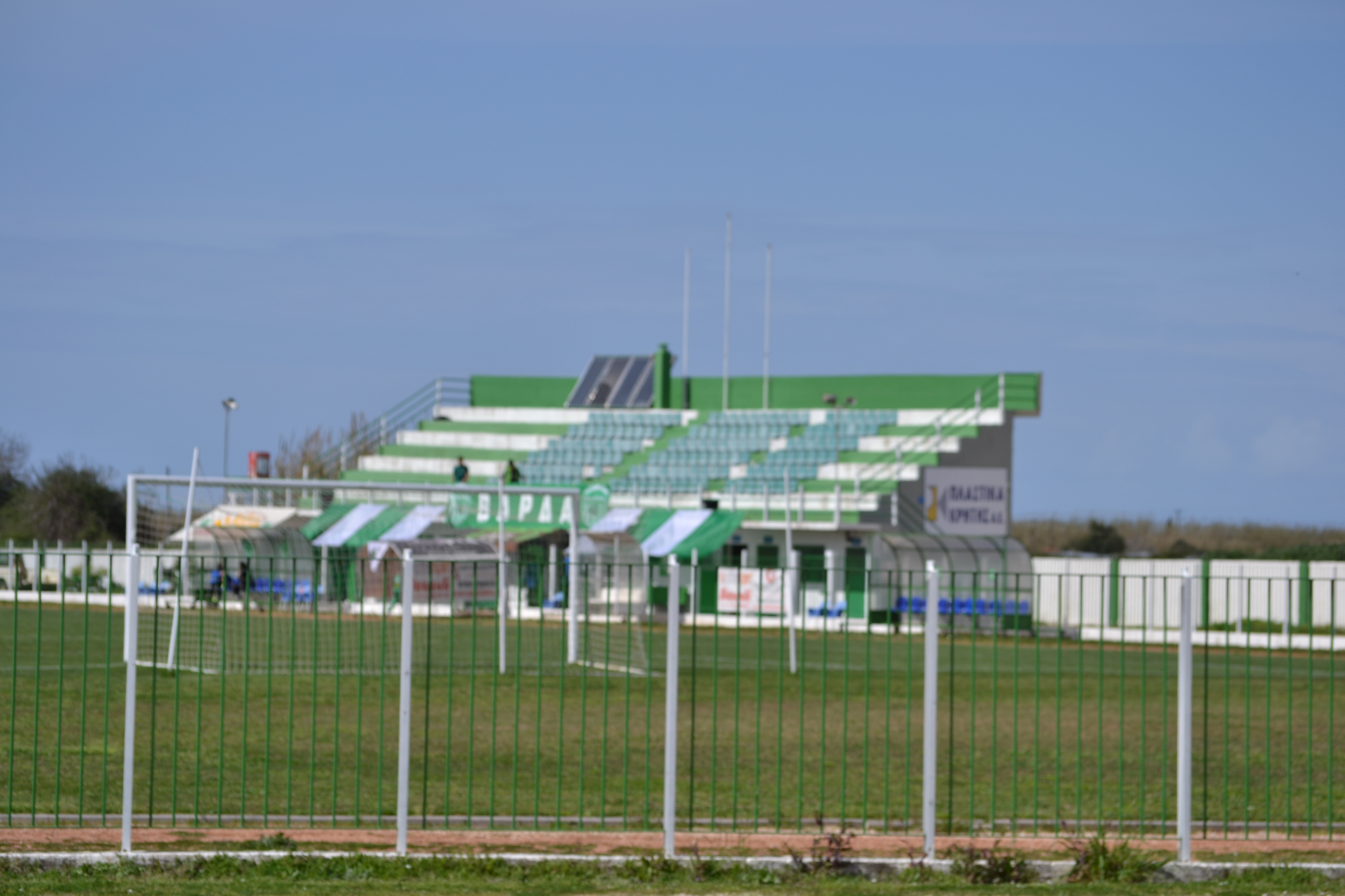 ΓΗΠΕΔΟ ΓΡΗΓΟΡΗΣ ΚΑΛΑΚΟΣ